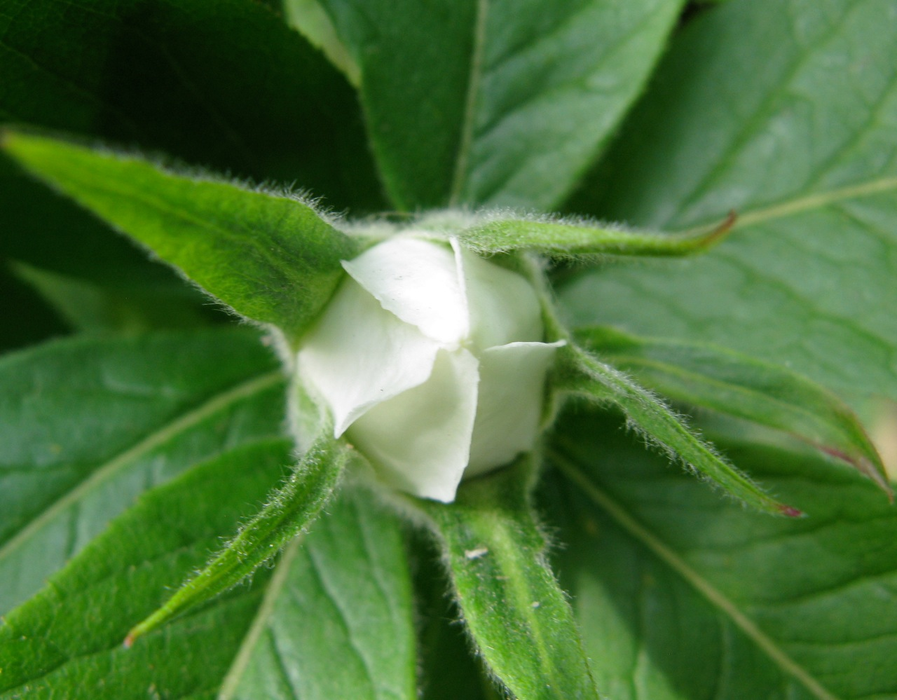 Mespilus germanica imbricated petals just before the flower opens